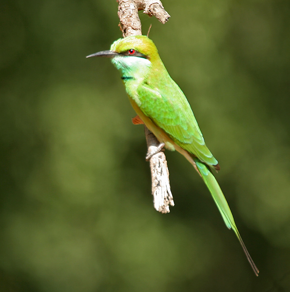 Green Bee-eaters Merops orientalis at Sindhrot in Vadodara District of Gujarat, India.